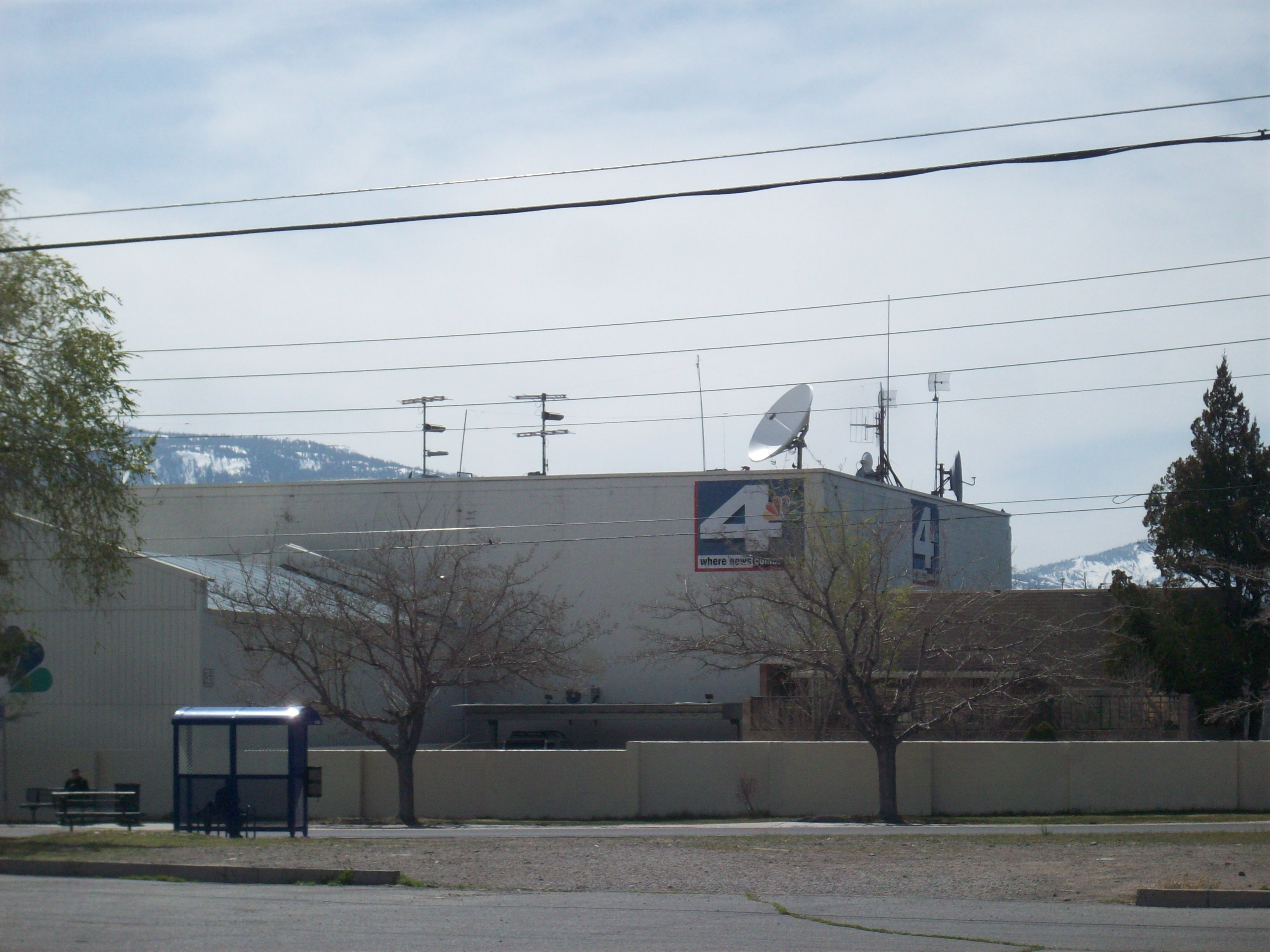 Television Station building KRNV-DT